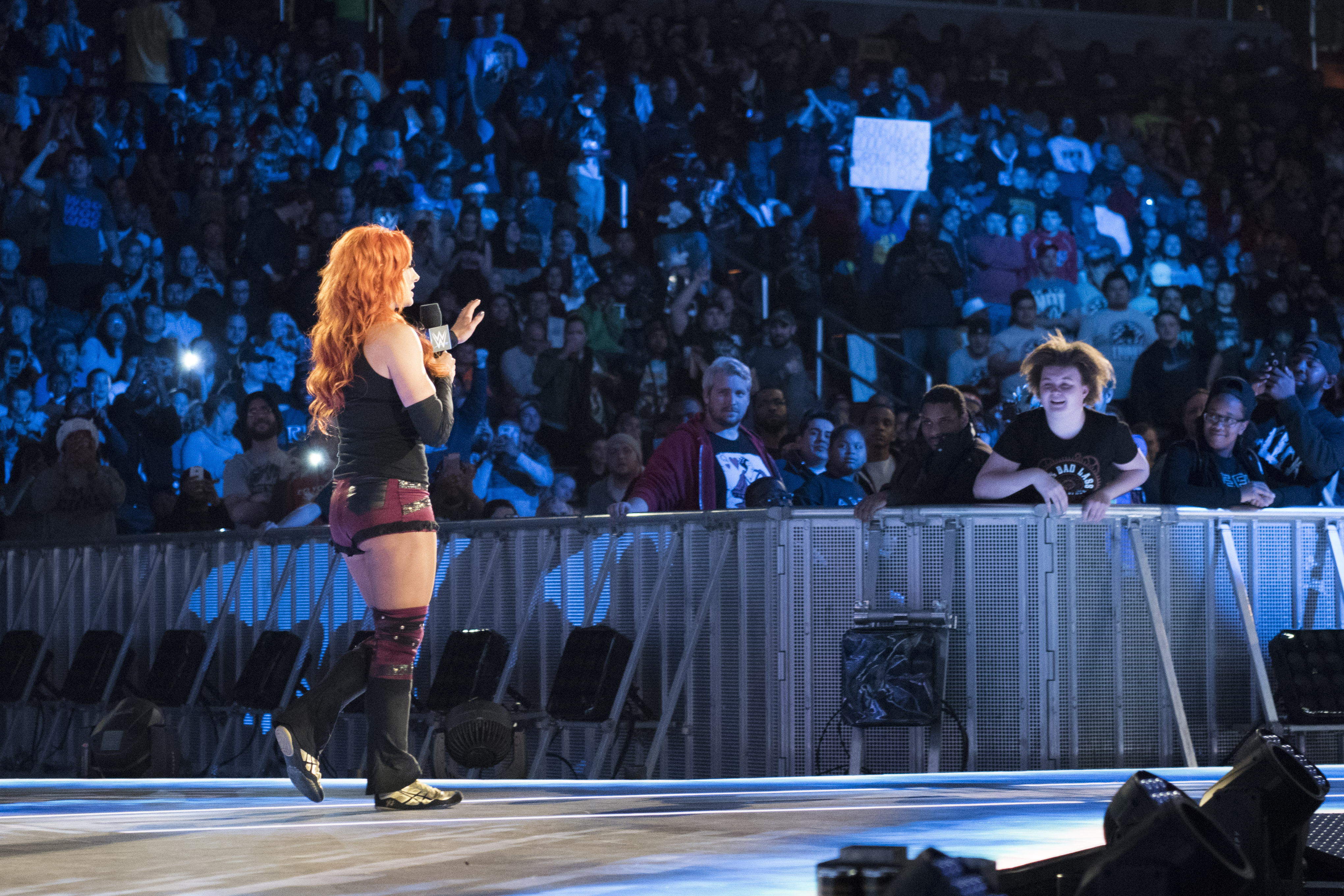 WWE performers participate in the 14th Annual Tribute to the Troops Event at the Verizon Center in Washington, D.C., Dec. 13, 2016. WWE Tribute to the Troops is an annual event held by WWE and Armed Forces Entertainment in December during the holiday season since 2003, to honor and entertain United States Armed Forces members. WWE performers and employees travel to military camps, bases and hospitals, including the Walter Reed National Military Medical Center at Naval Support Activity Bethesda. DoD Photo by Navy Petty Officer 2nd Class Dominique A. Pineiro